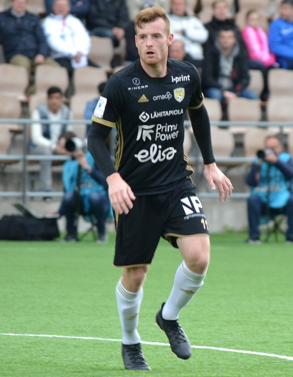 Football player Tomas Hradecký